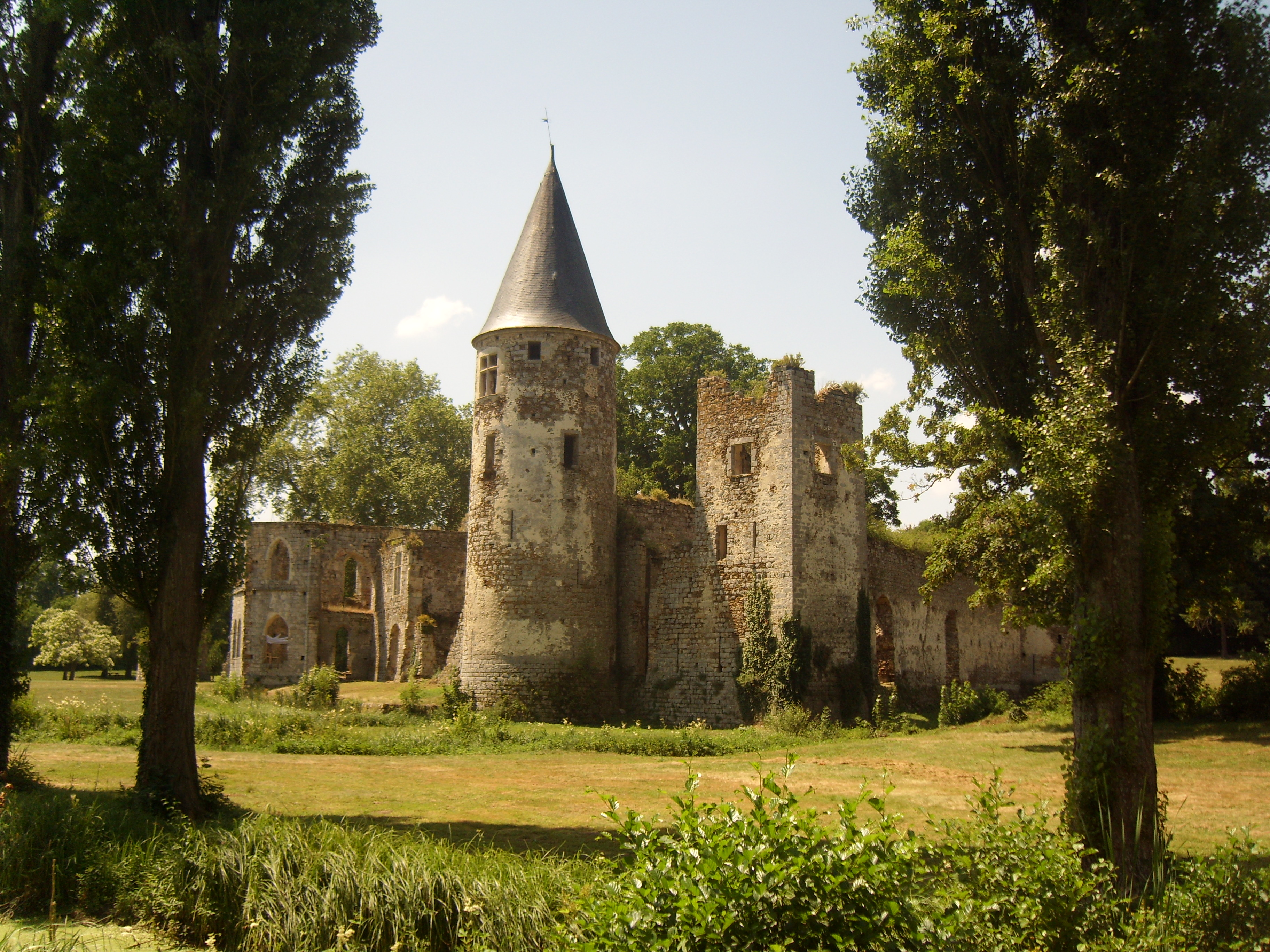 The royal Castle of the Vivier